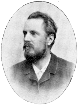 Image scanned from the book "Svenskt Porträttgalleri XX - Arkitekter, Bildhuggare, Målare m.fl. " ("Swedish Portrait Gallery XX - Architects, Sculptors, Painters, ") published 1901